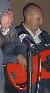 Mark Bedford, bassist of Madness